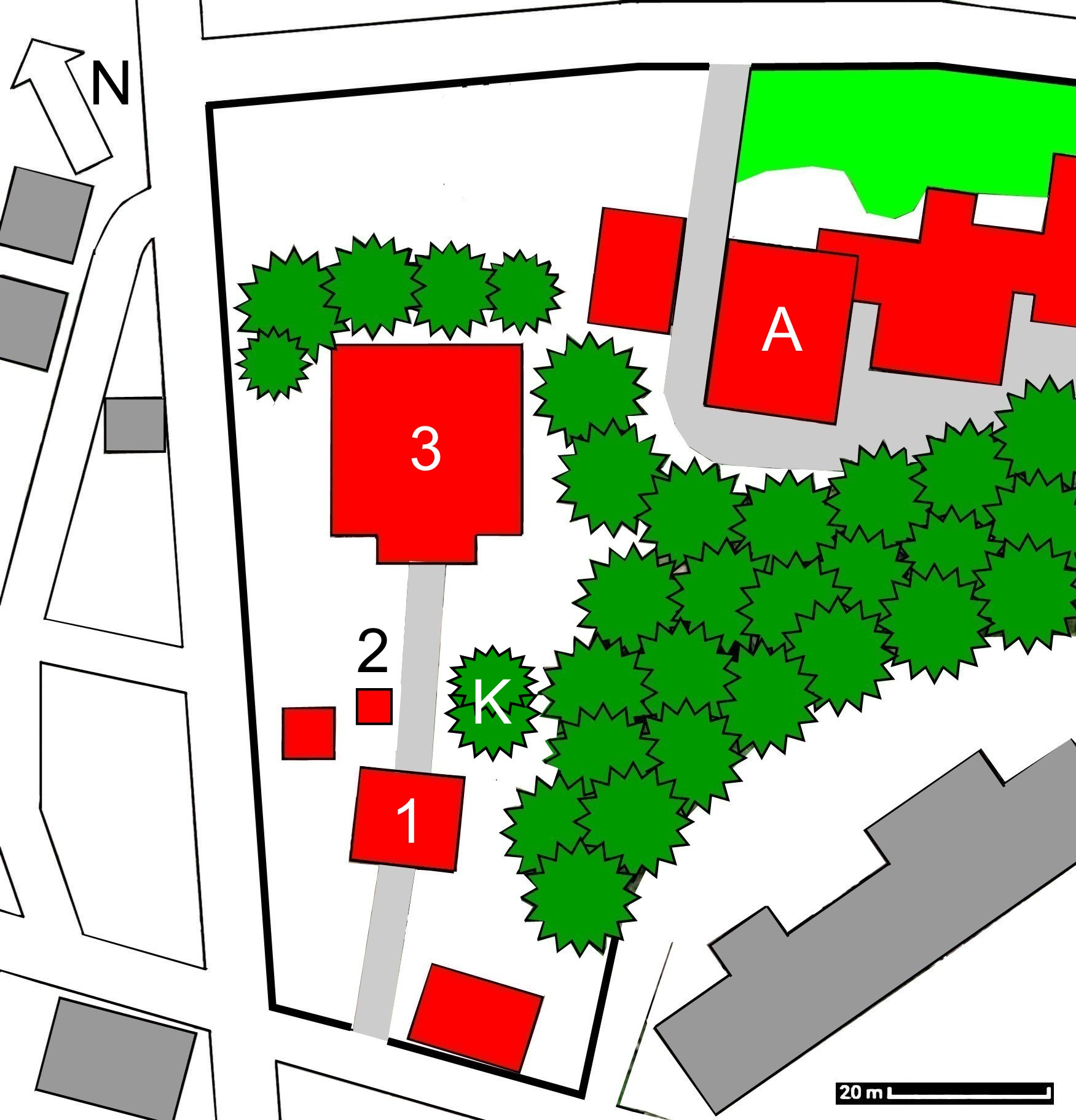 Layout of Ryûshô-in temple, Narita, Japan